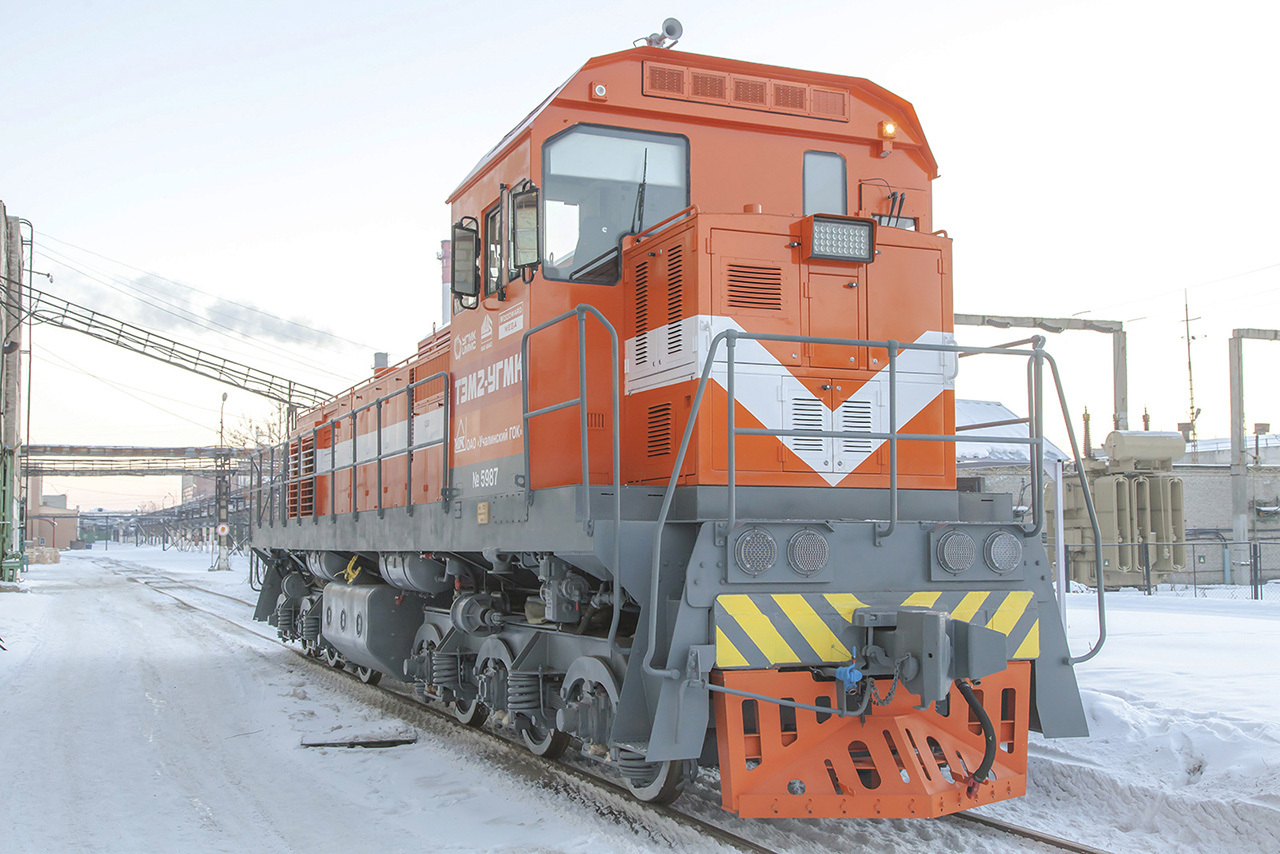 Diesel locomotive TEM2UGMK-5987. Russia, Kurgan region, JSC "Shadrinsk plant of automobile units"